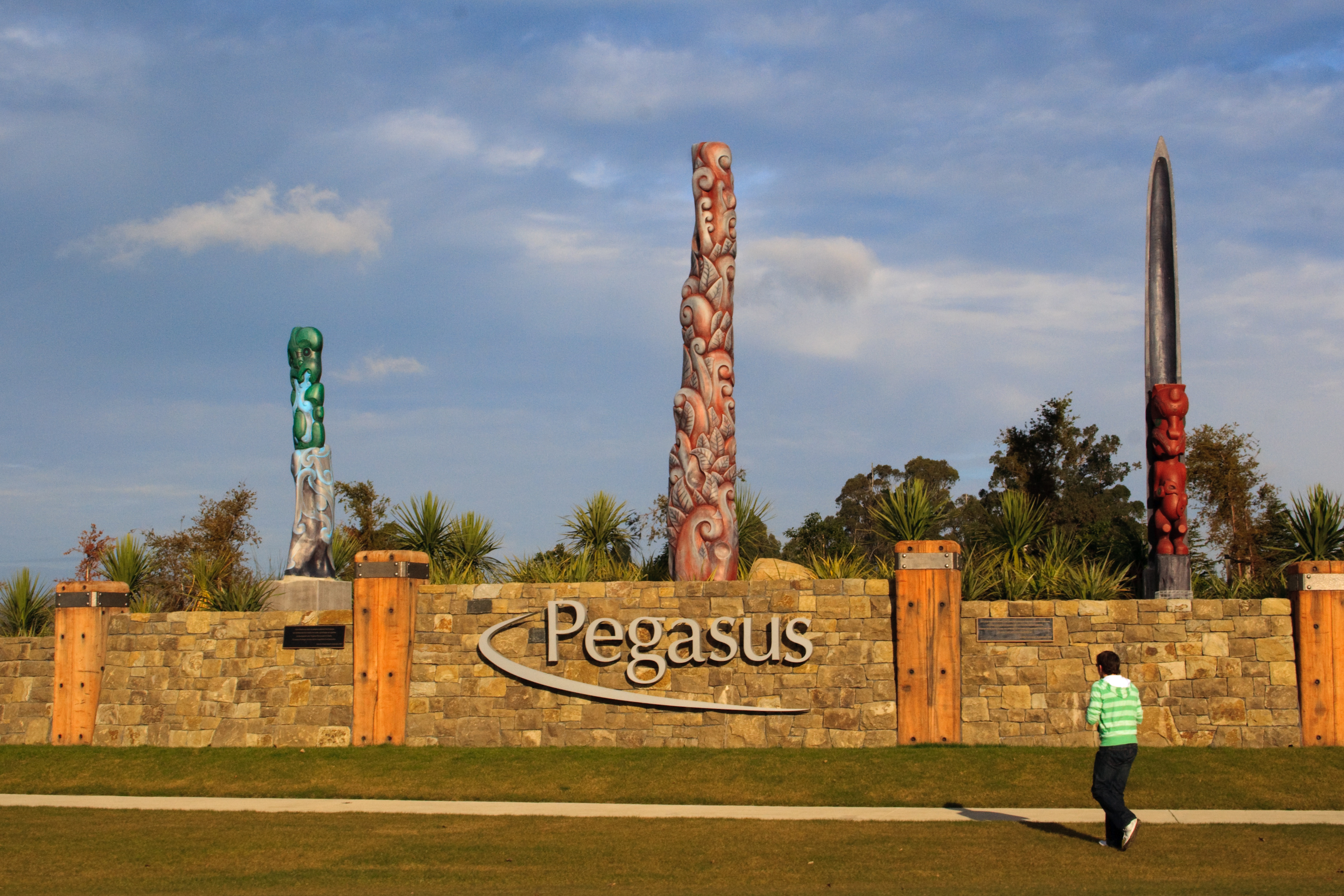 Man-made town. No character.